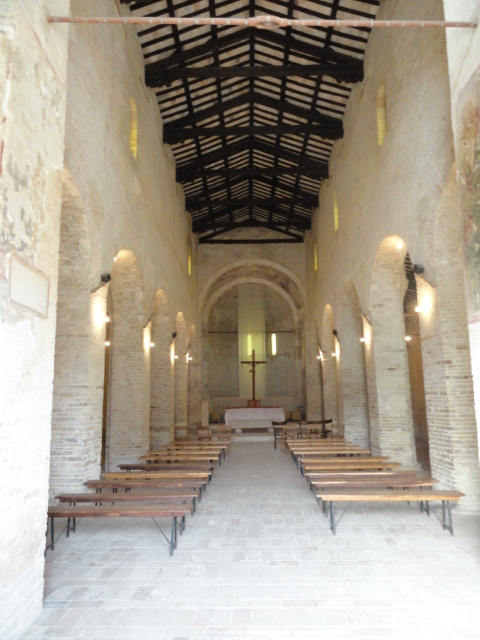 Interior view towards the altar